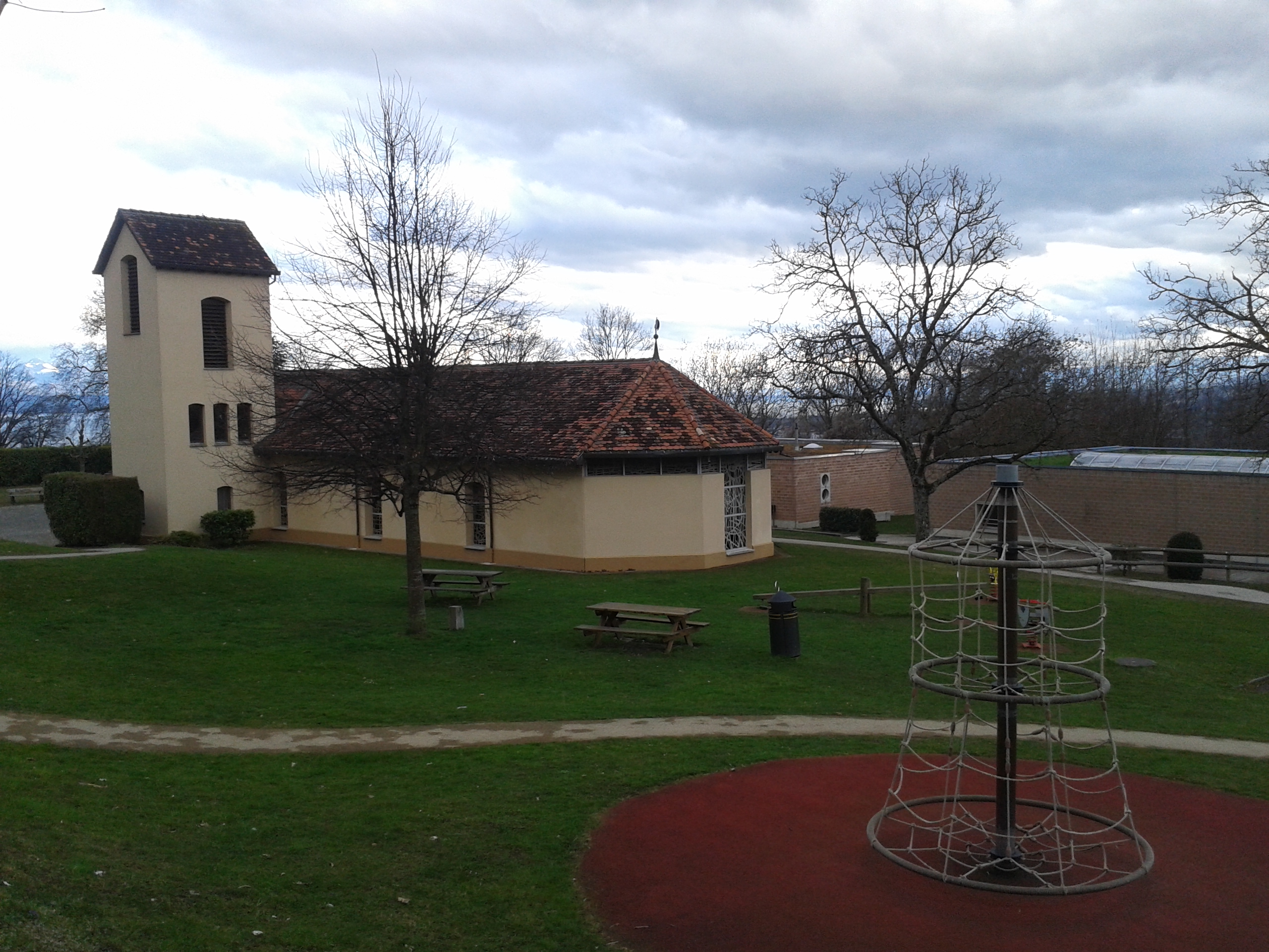 The Jouxtens-Mézery church in Vaud, Switzerland.